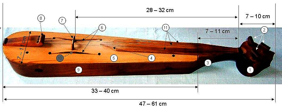 Pontian Lyra (Black Sea Fiddle, Kemenche)